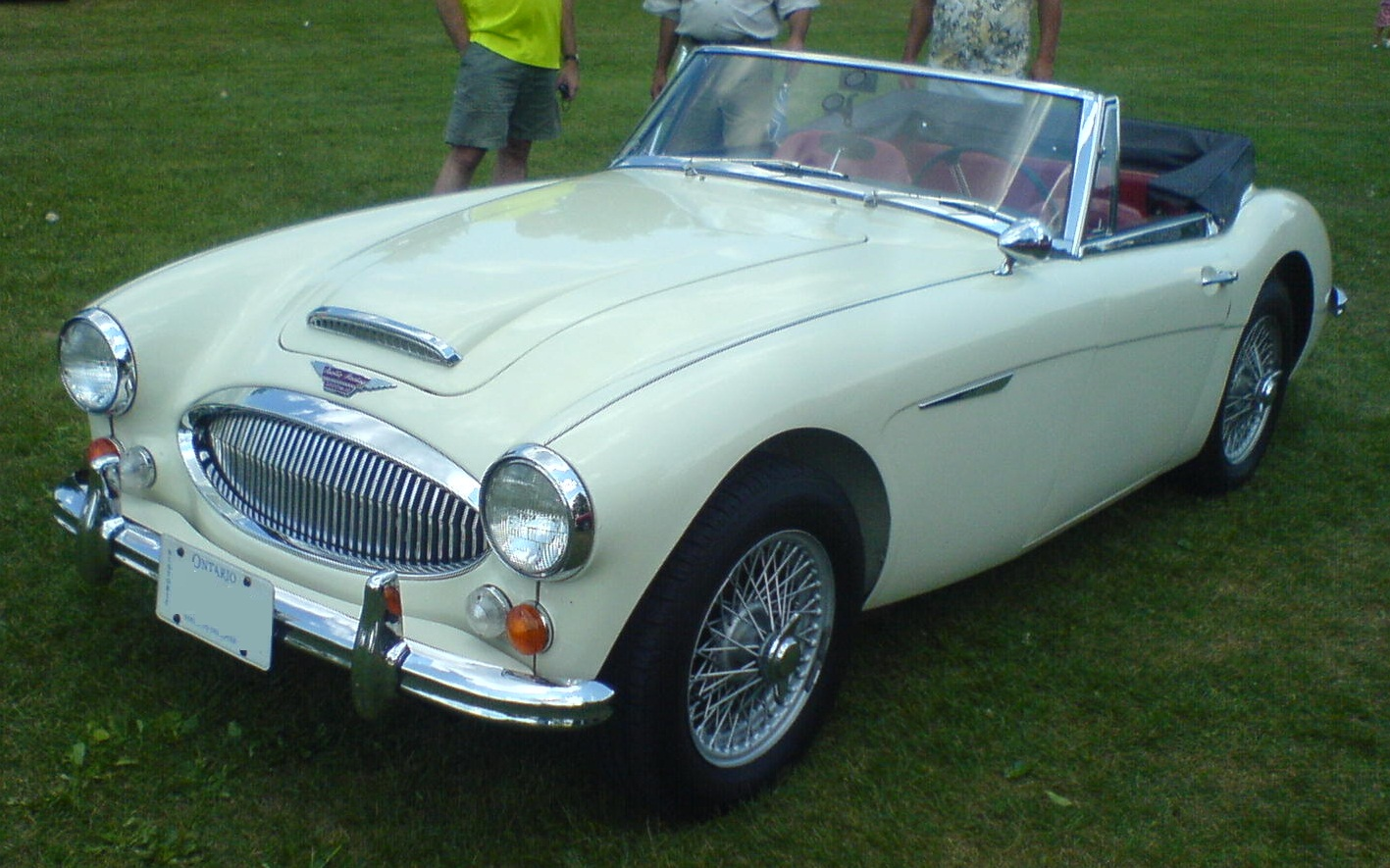 Austin-Healey 3000 photographed in Ottawa, Ontario, Canada at the 2010 Ottawa British Auto Show.